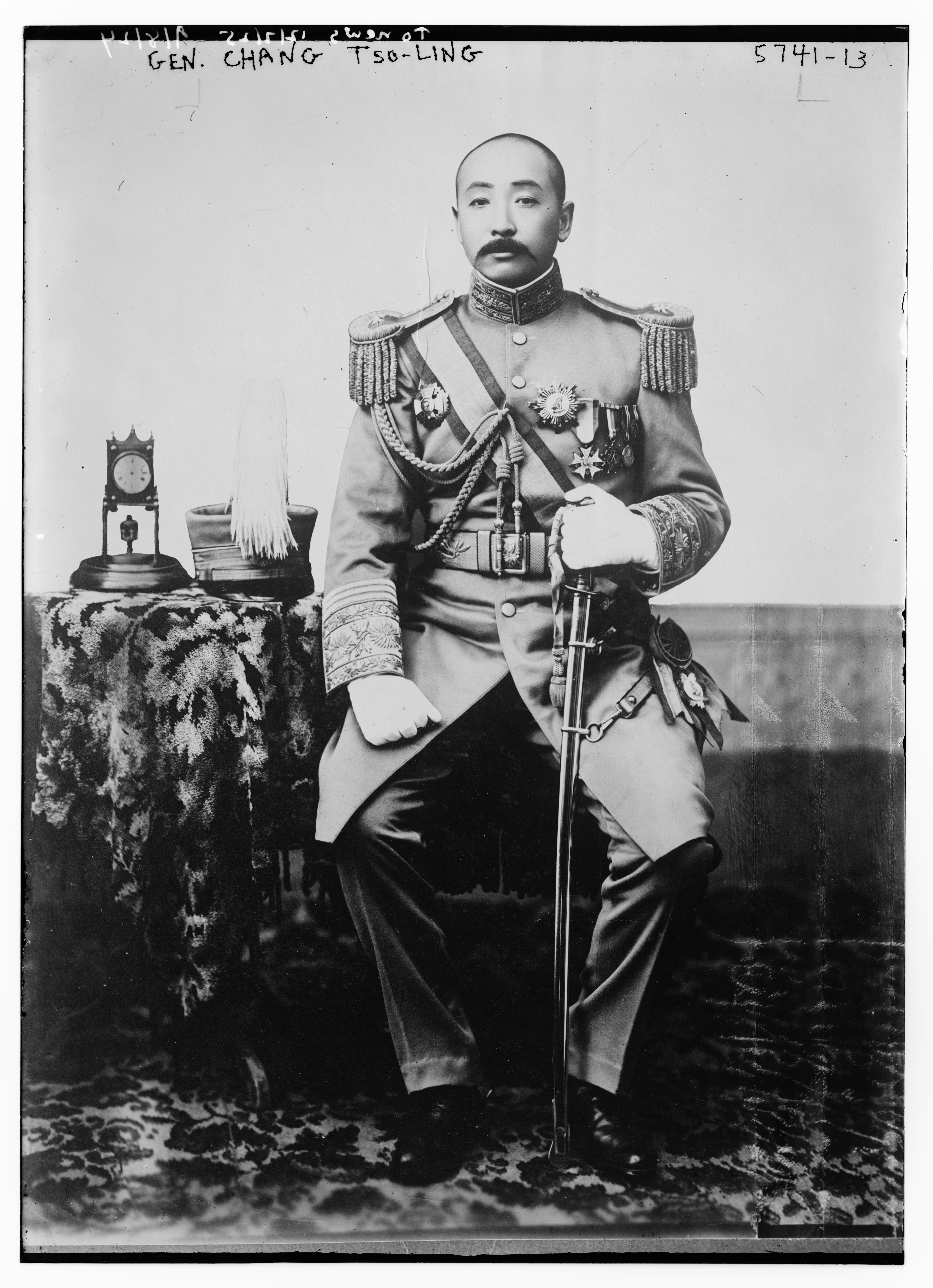 The chinese general and Manchurian warlord, Zhang Zuolin.